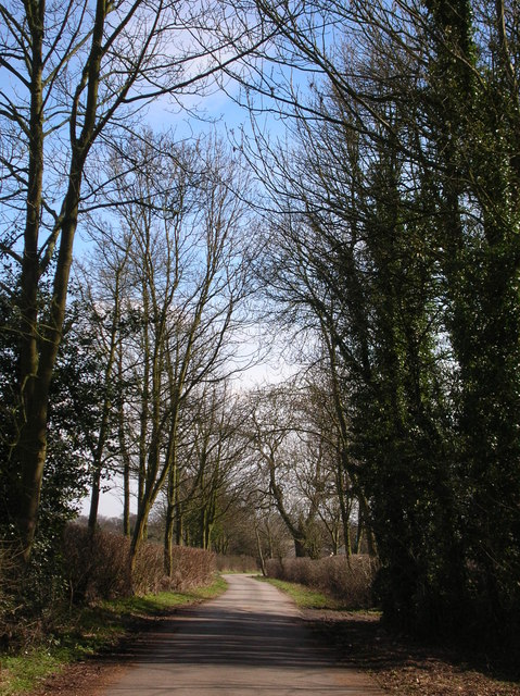 Beryl Burton Cycleway. Looking towards Knaresborough on the Beryl Burton cycleway.